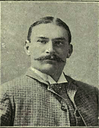 A picture of Charles J B Marriott, former captain of the England rugby union team.